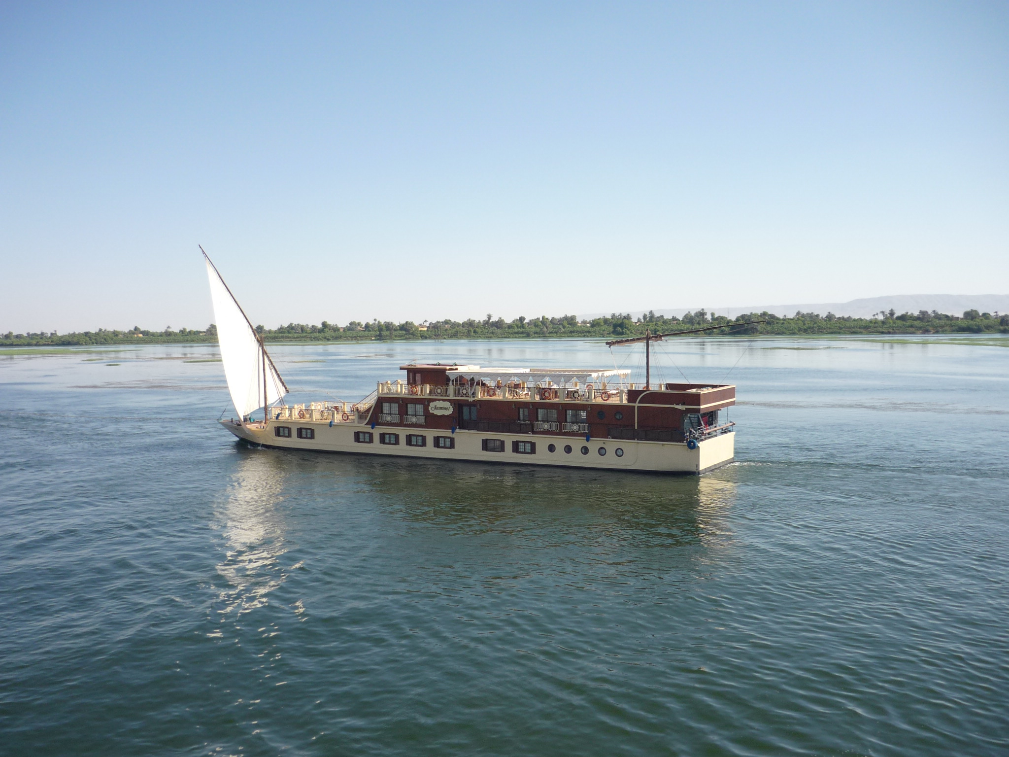 Nile cruise ship between Luxor and Esna, Egypt